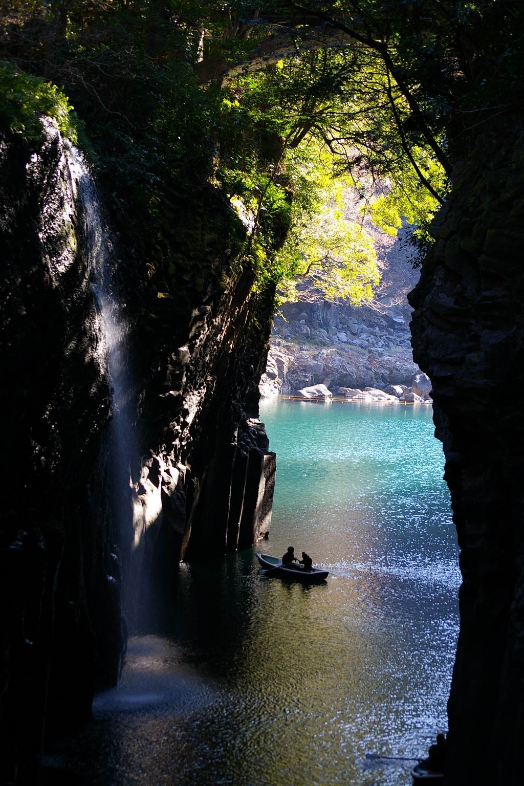 the Takachiho Gorge, Miyazaki prefecture, Japan